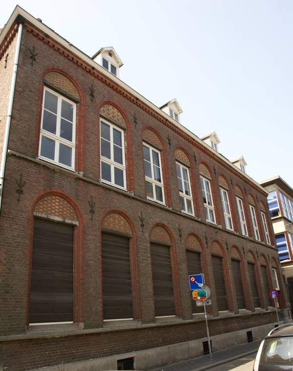 National monument no. 506635 - Girls school (1888), Capucijnenstraat 120, Maastricht, The Netherlands